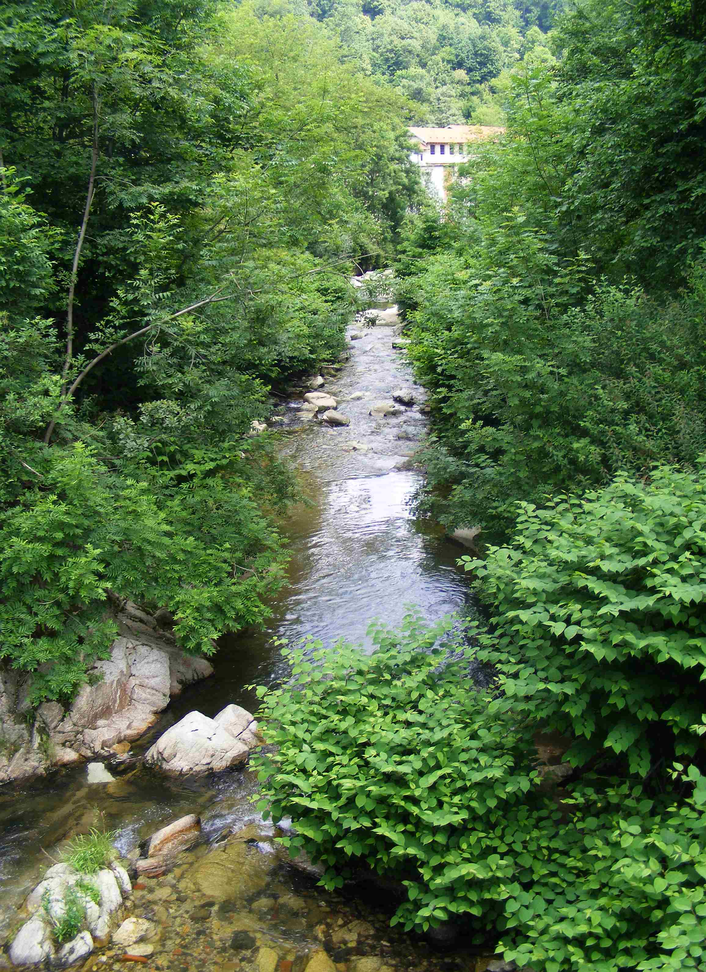 Ponzone creek near Fabbrica della Ruota (BI, Italy)